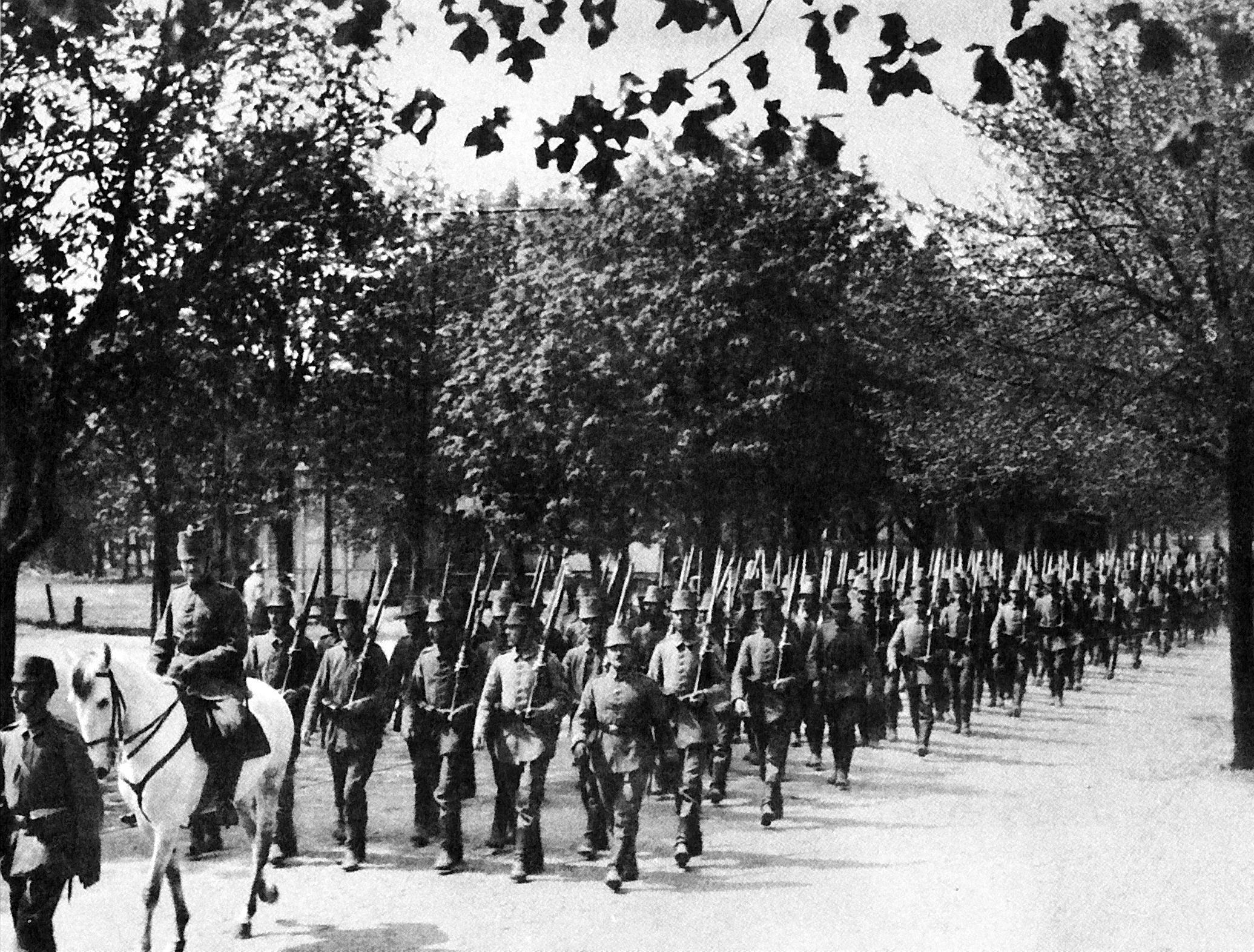 The Royal Prussian 27th Jäger Battalion in a parade in Liepāja (Libau) in summer 1917